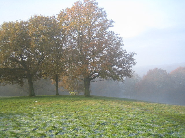 Bench in Epping Forest — from Baldwins Hill. In the Epping Forest District of Essex, and Greater London.